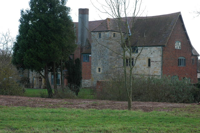 Wightfield Manor, Apperley, Gloucestershire, seen from the northwest. A moated manor house, built in the 16th century and remodelled in each century since.